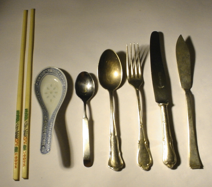 Various cutlery